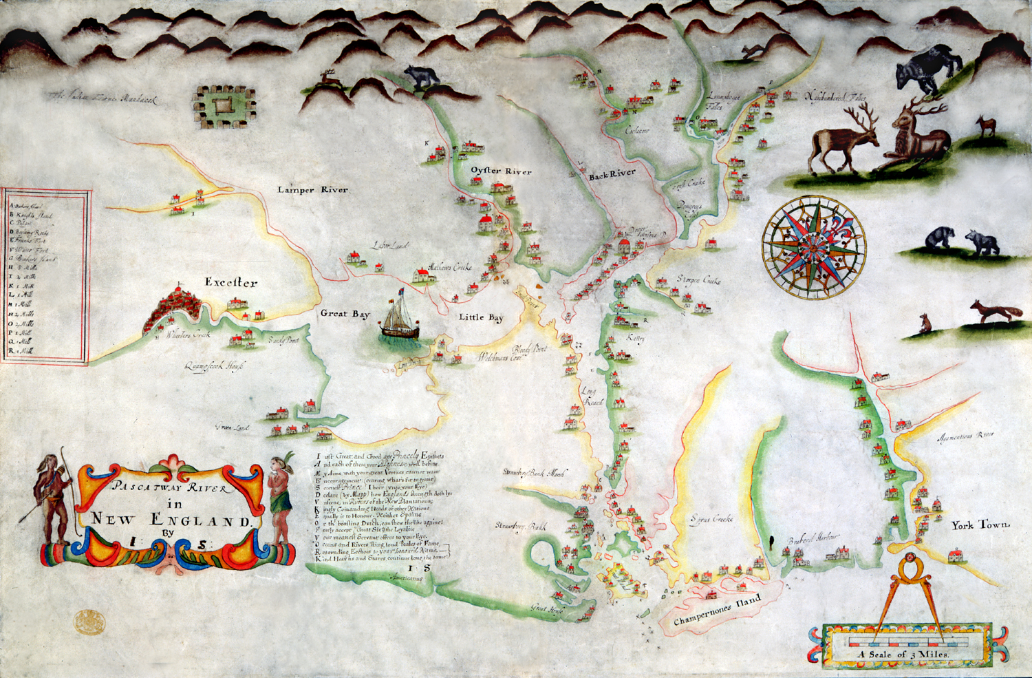 1667 map of the Piscataqua River by John Scott (adventurer)